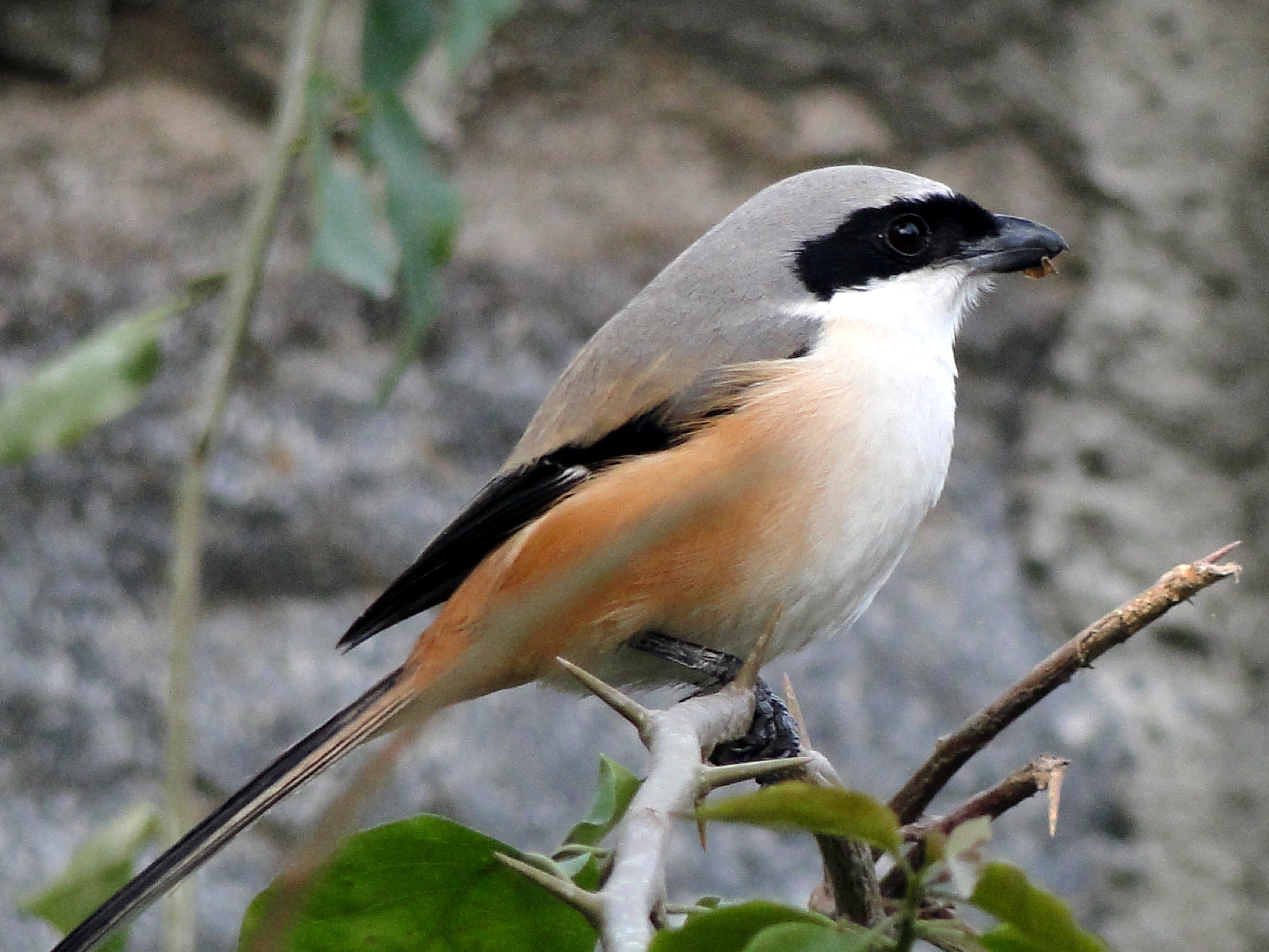 Found in Sector 18 horticulture park of Govt. of Delhi in Dwarka, New Delhi, India